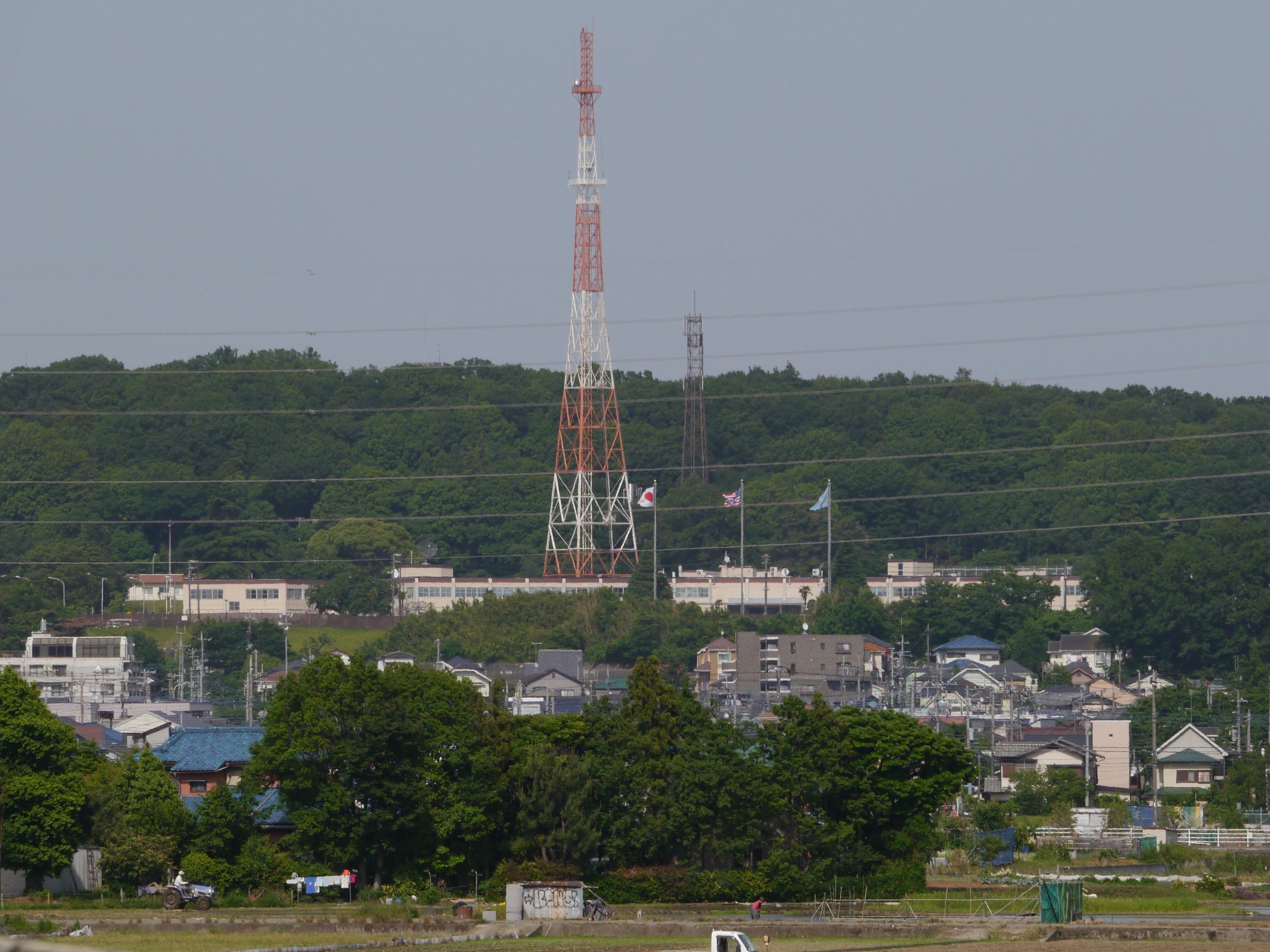 Camp Zama BLDG.101